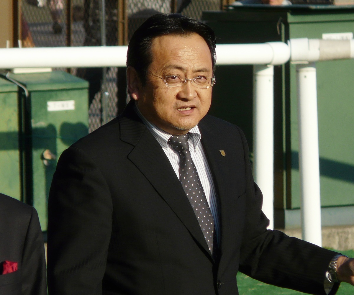 Hiroyuki-Uehara20111126